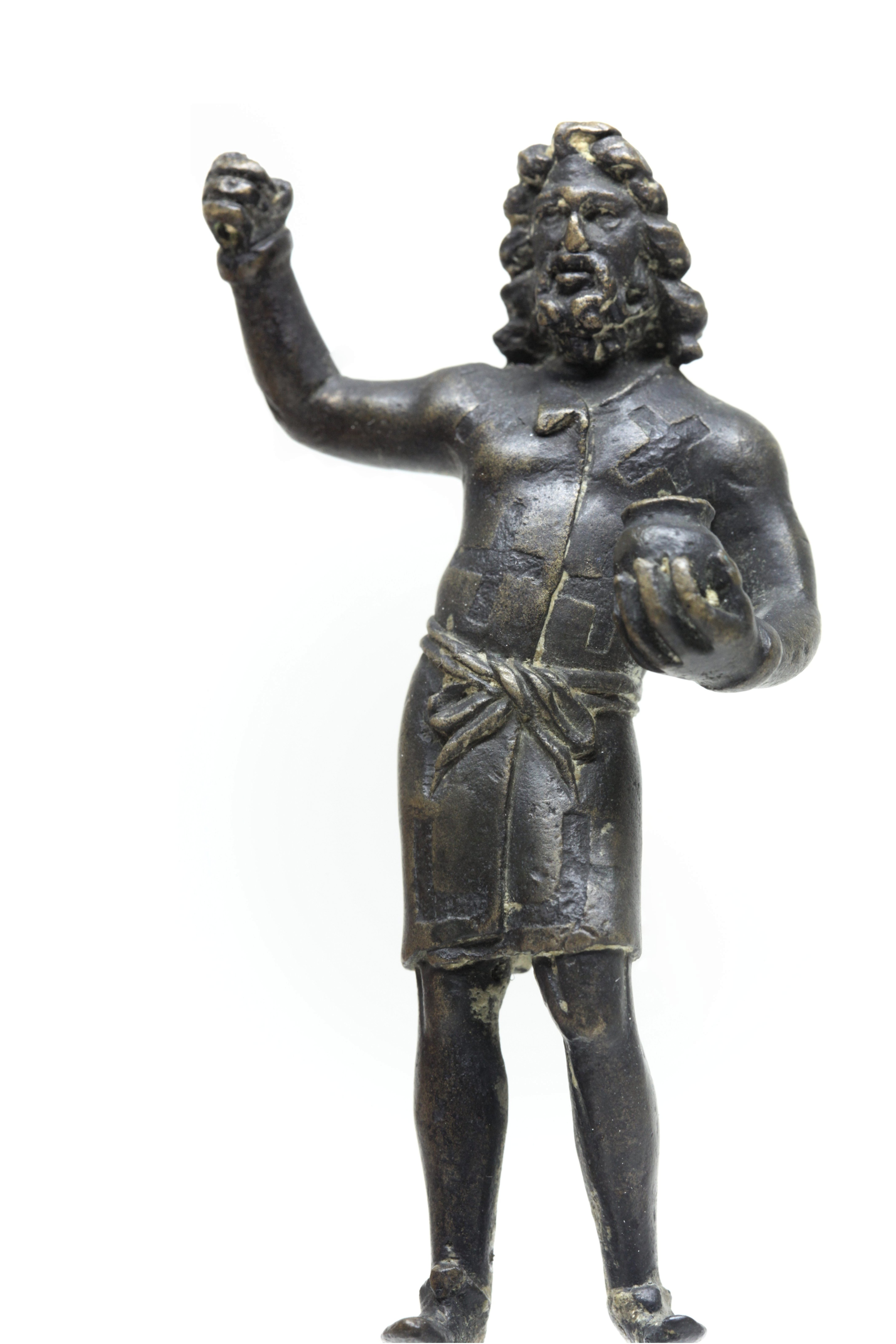 Statuette of Sucellus. Bronze. On display at Fourvière Gallo-Roman museum.